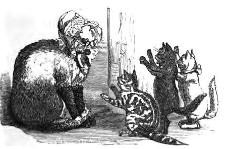 Three kitten applauding a big cat wearing a bonnet.